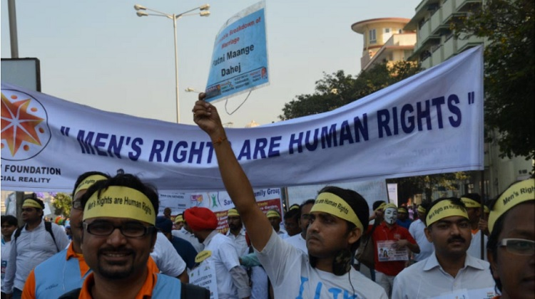 The Men's Rights Movement in India (sometimes called the Men's Human Rights Movement - MHRM) commons